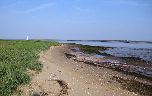 South shore of Pewit Island. Safe enough on a falling tide but rather isolated at high tide. Across Hamford Water can be seen the Thames lighters beached to protect the north-east shore of Horsey Island. 807668